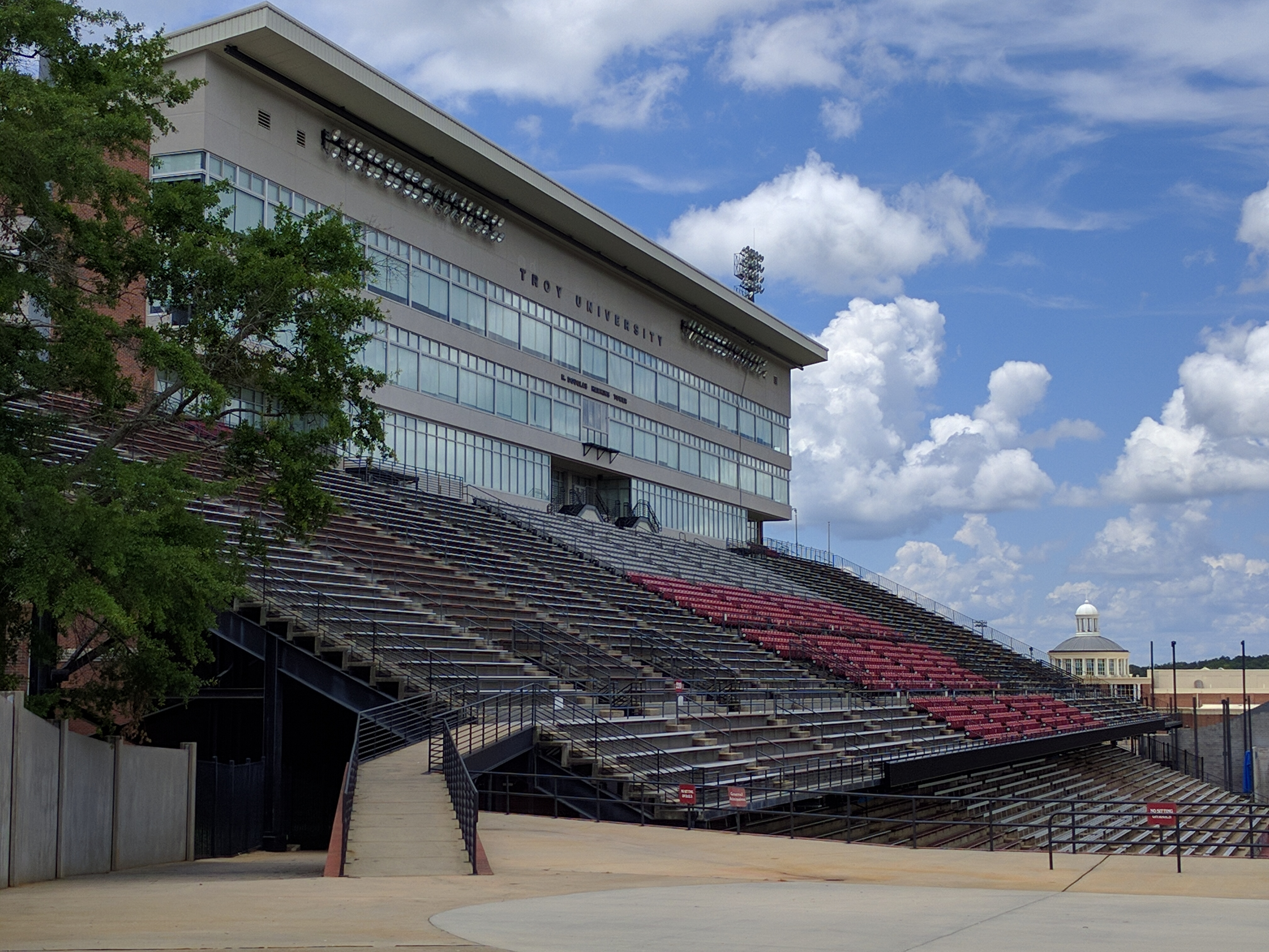 View of West Stands at Veterans Memorial Stadium.